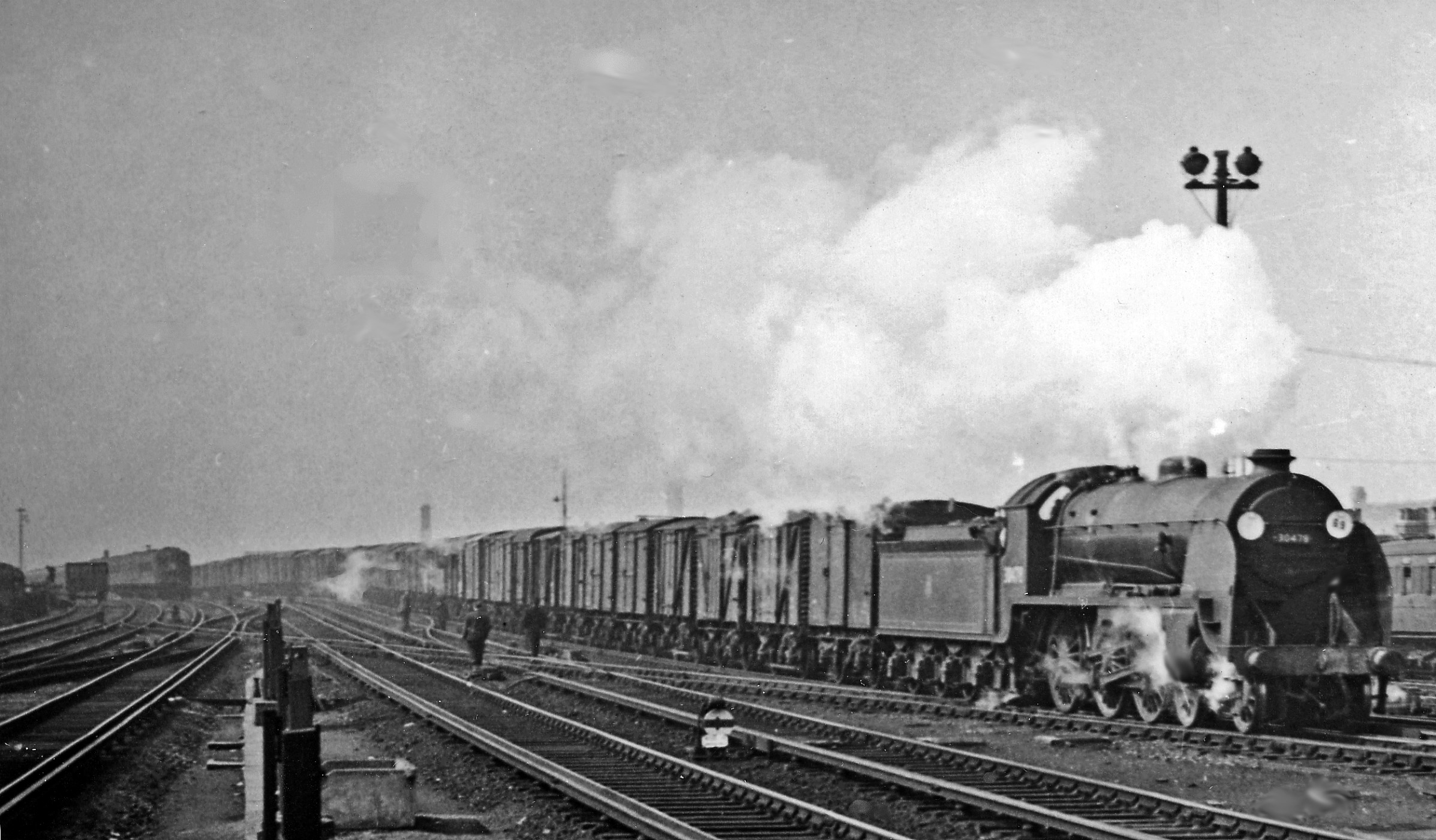 Up Windsor Line freight approaching Clapham Junction. View westward from the west end of the Windsor Line platforms at Clapham Junction, towards Richmond, Staines and Windsor/Reading. The Up freight is headed by SR Maunsell class H15 4-6-0 No. 30478 (built 6/24, withdrawn 3/59).